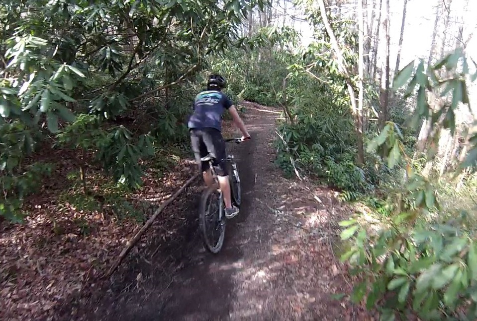 Mountain biking in Pisgah National Forest (near Brevard, NC).